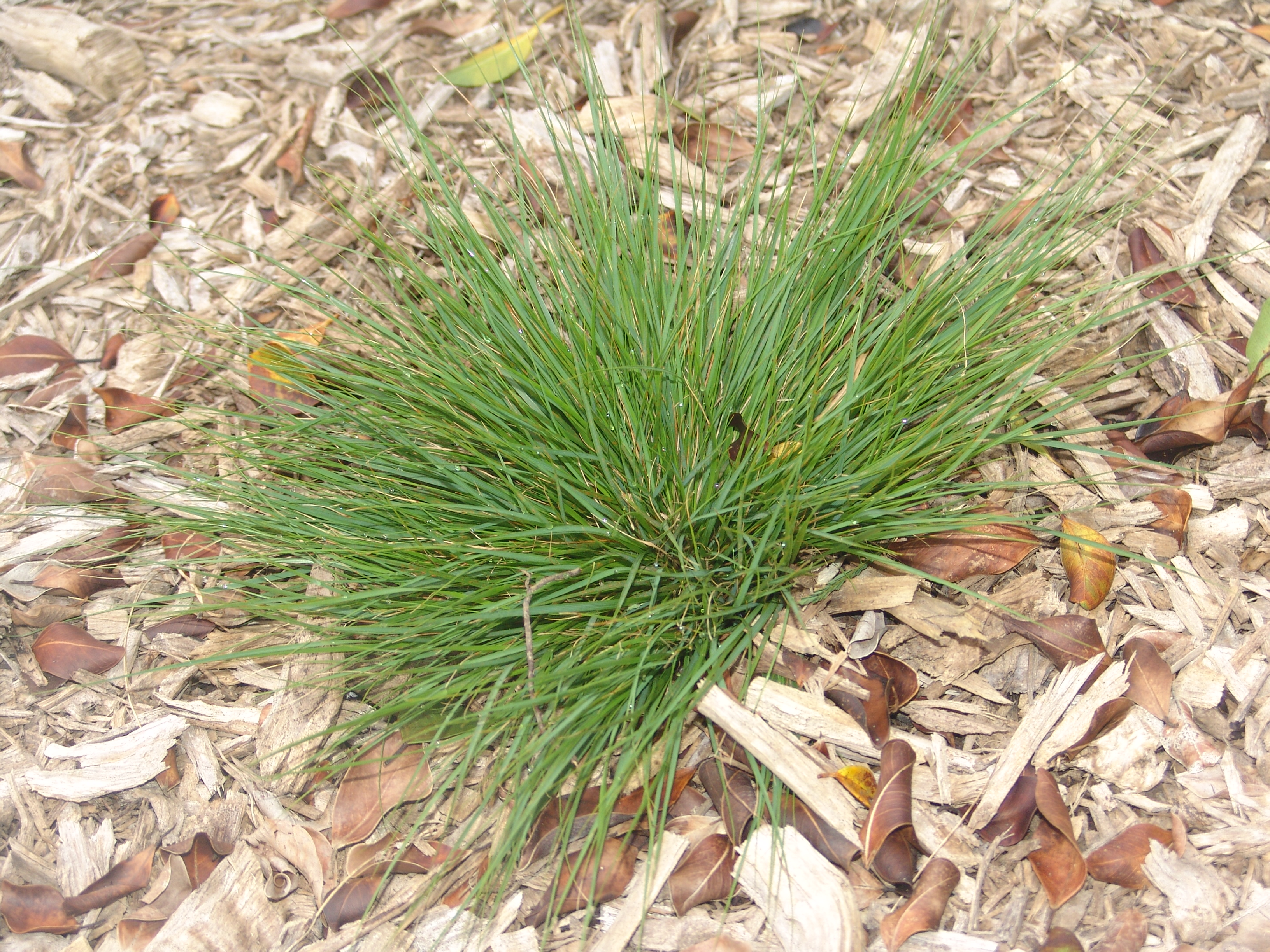 Sporobolus caespitosus, Ascension endemic Plant. Found on exposed cinder paths. IUCN status-endangered. Specimens being grown by Ascension Island Conservation department.